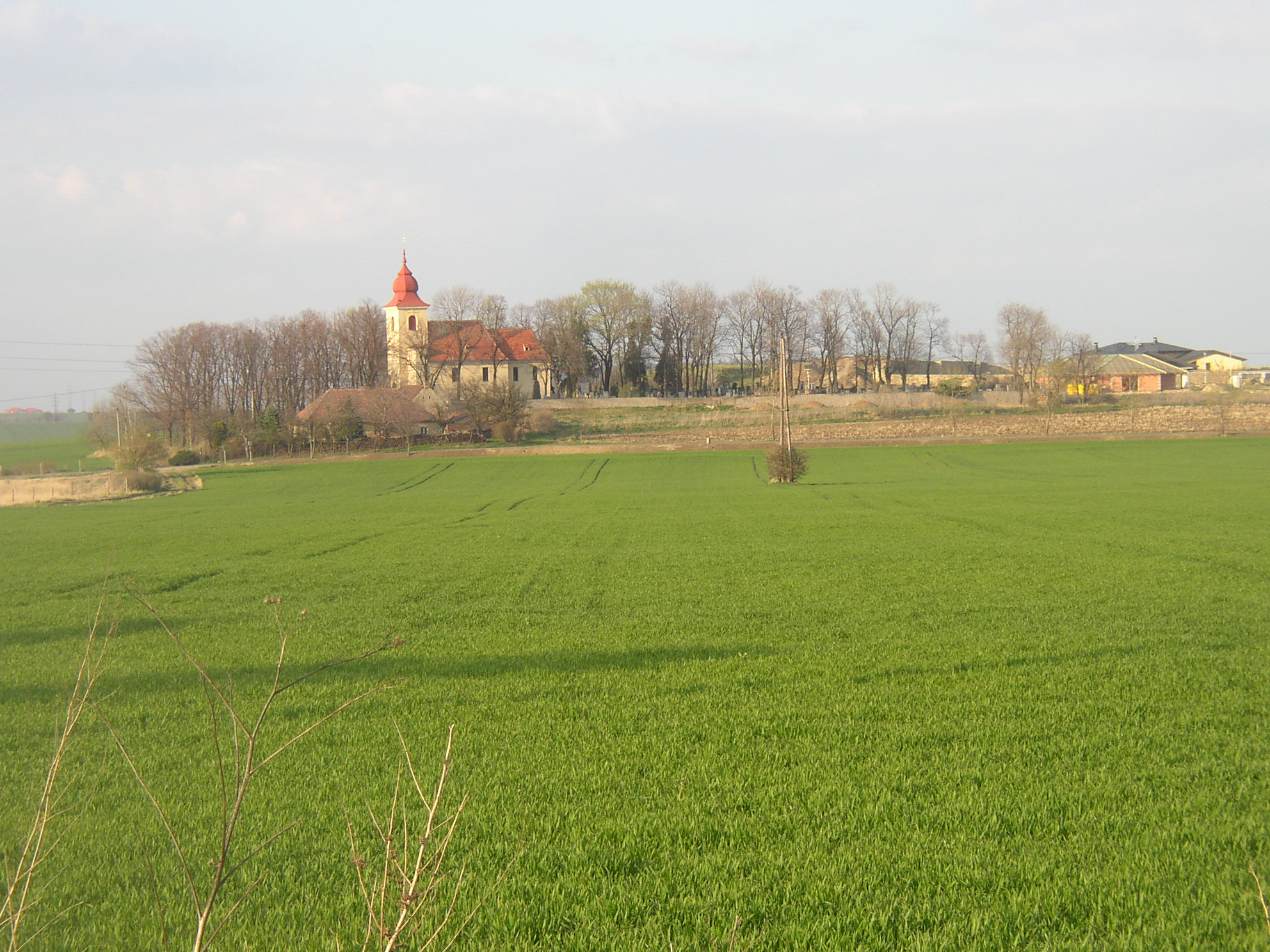 Church of Nativity of St John the Baptist in village of Noutonice, part of Lichoceves municipality, Prague-West District, Czech Republic.